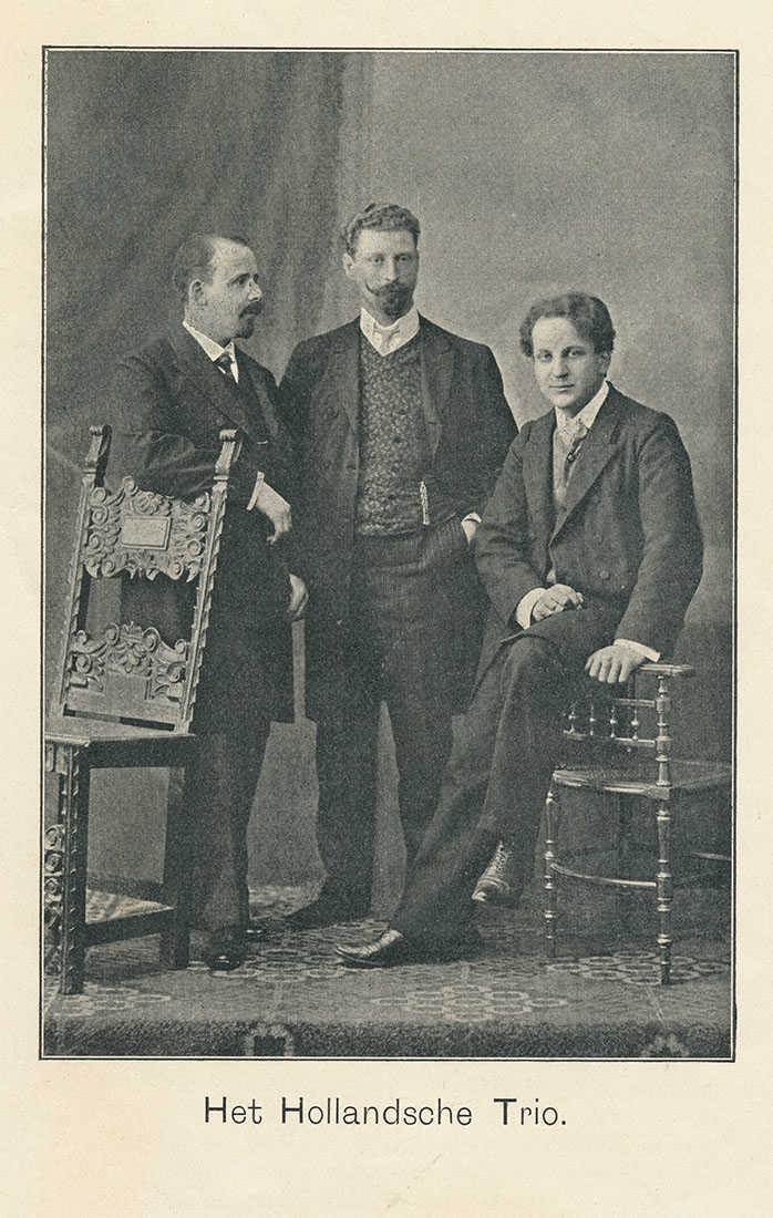 The Dutch Trio was a chamber music orchestra based in Berlin that was active between 1900 and 1910. They gave presentations throughout Europe